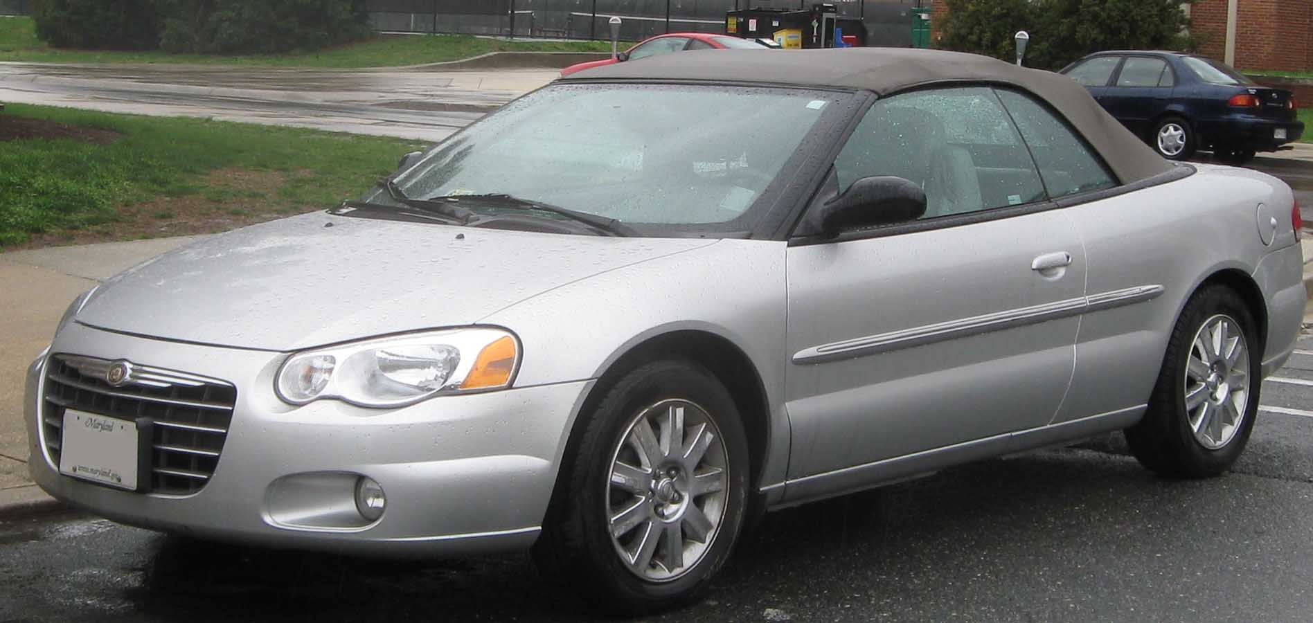 2004-2006 Chrysler Sebring convertible photographed in College Park, Maryland, USA.